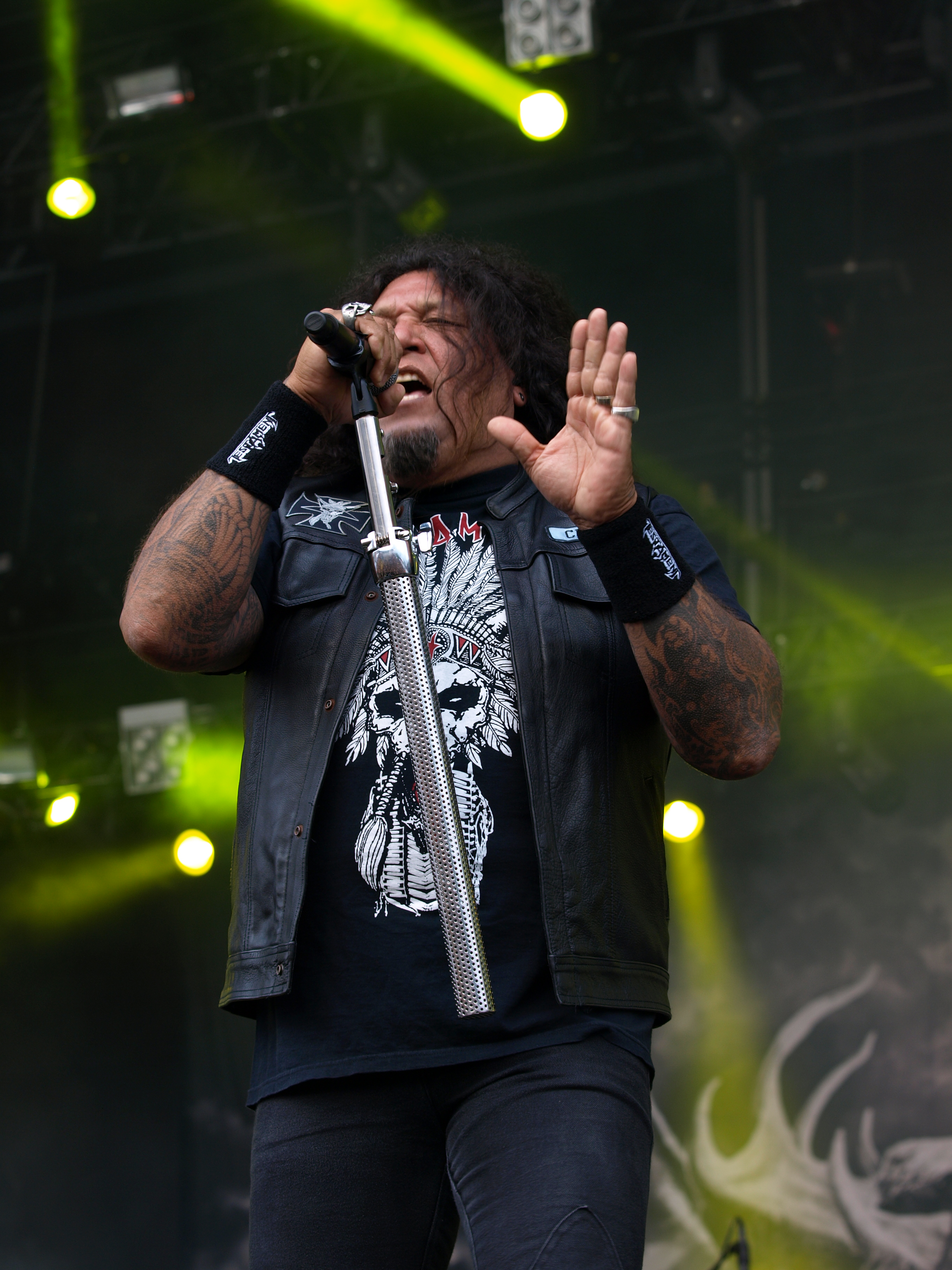 US-American thrash metal band Testament live at Tuska Open Air 2013